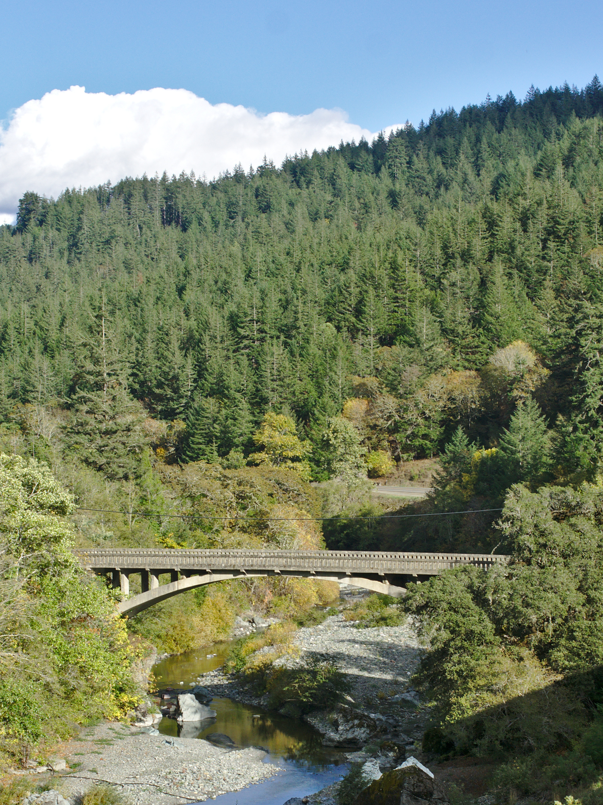 Bridge over the Van Duzen River near Bridgeville, California, US.